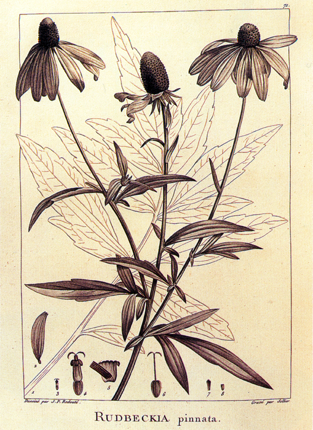 Rudbeckia pinnata